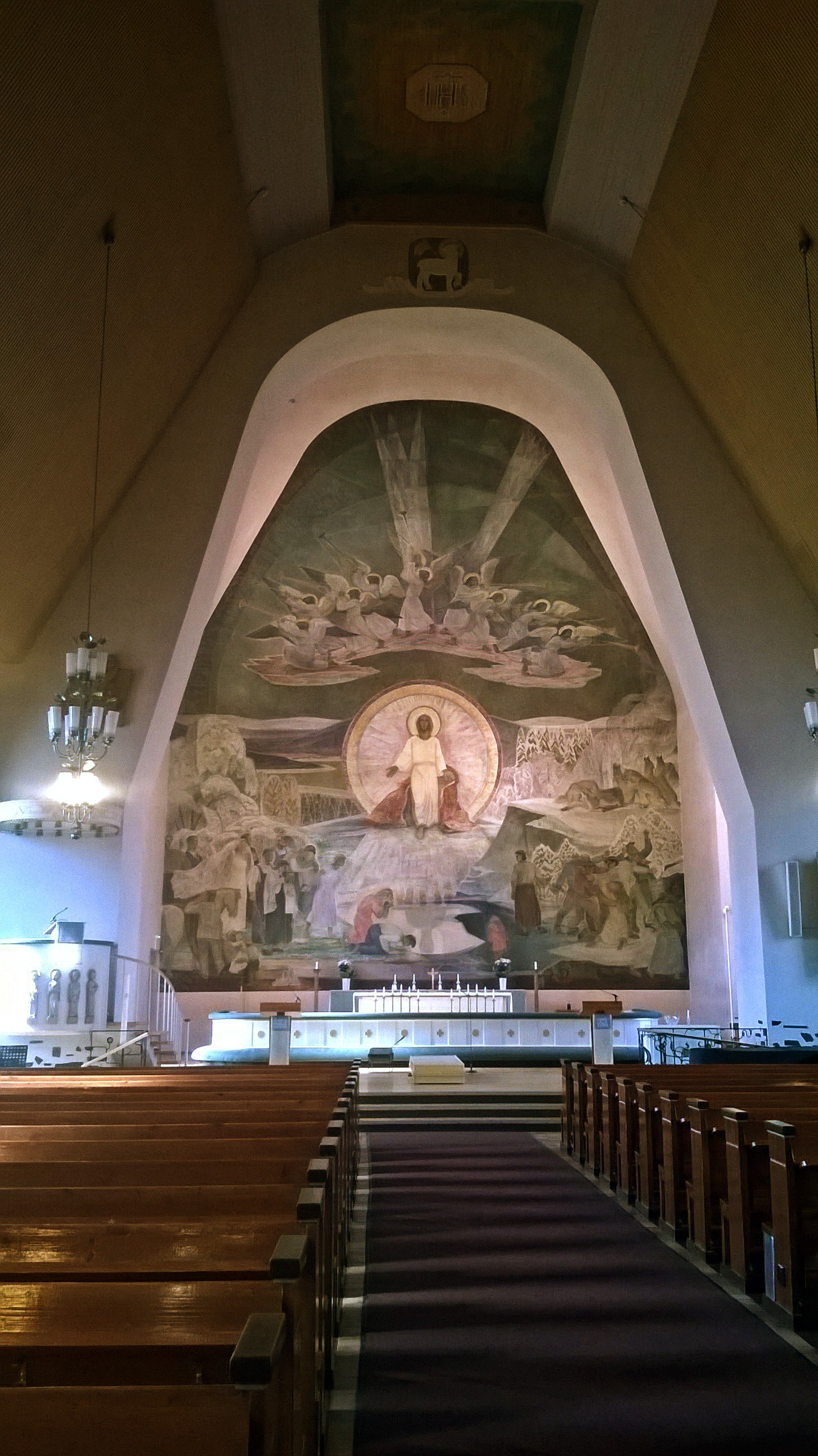 Rovaniemi church, Rovaniemi, Finland. -Altar. Mural by Lennart Segerstråle.